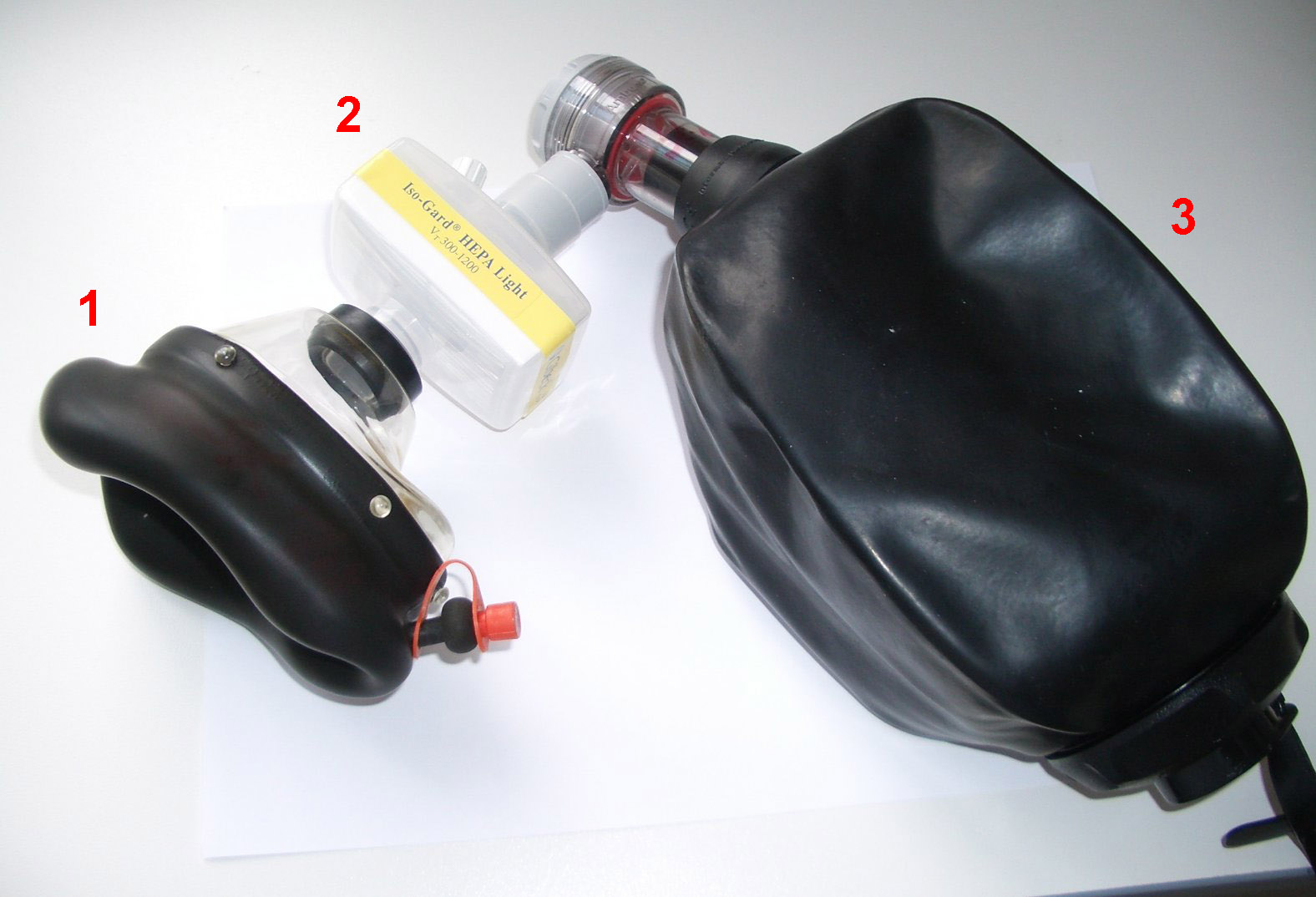 Bag valve mask (1) mask (2) bacterial filter (3) bag